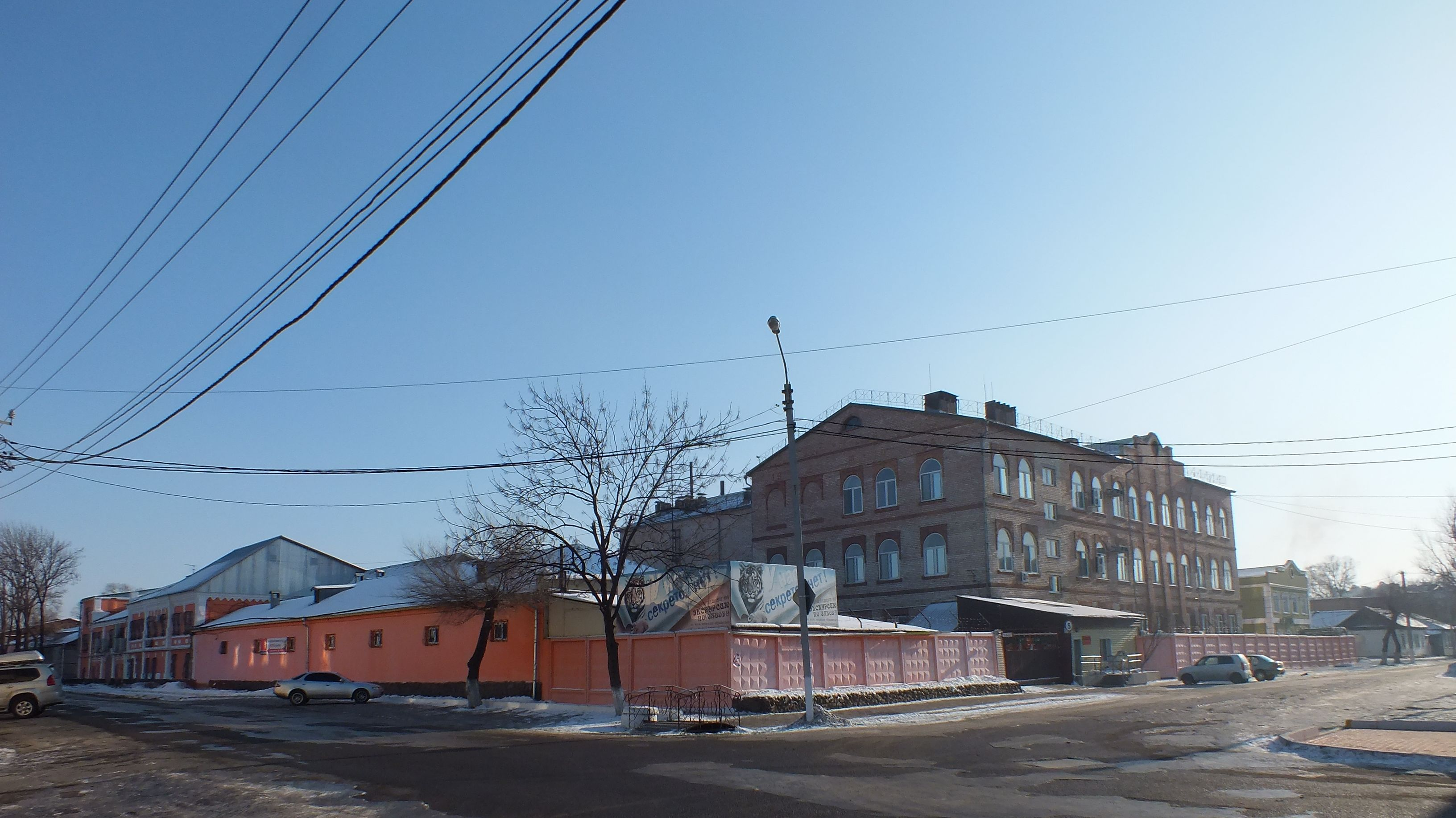 Buildings in Ussuriysk